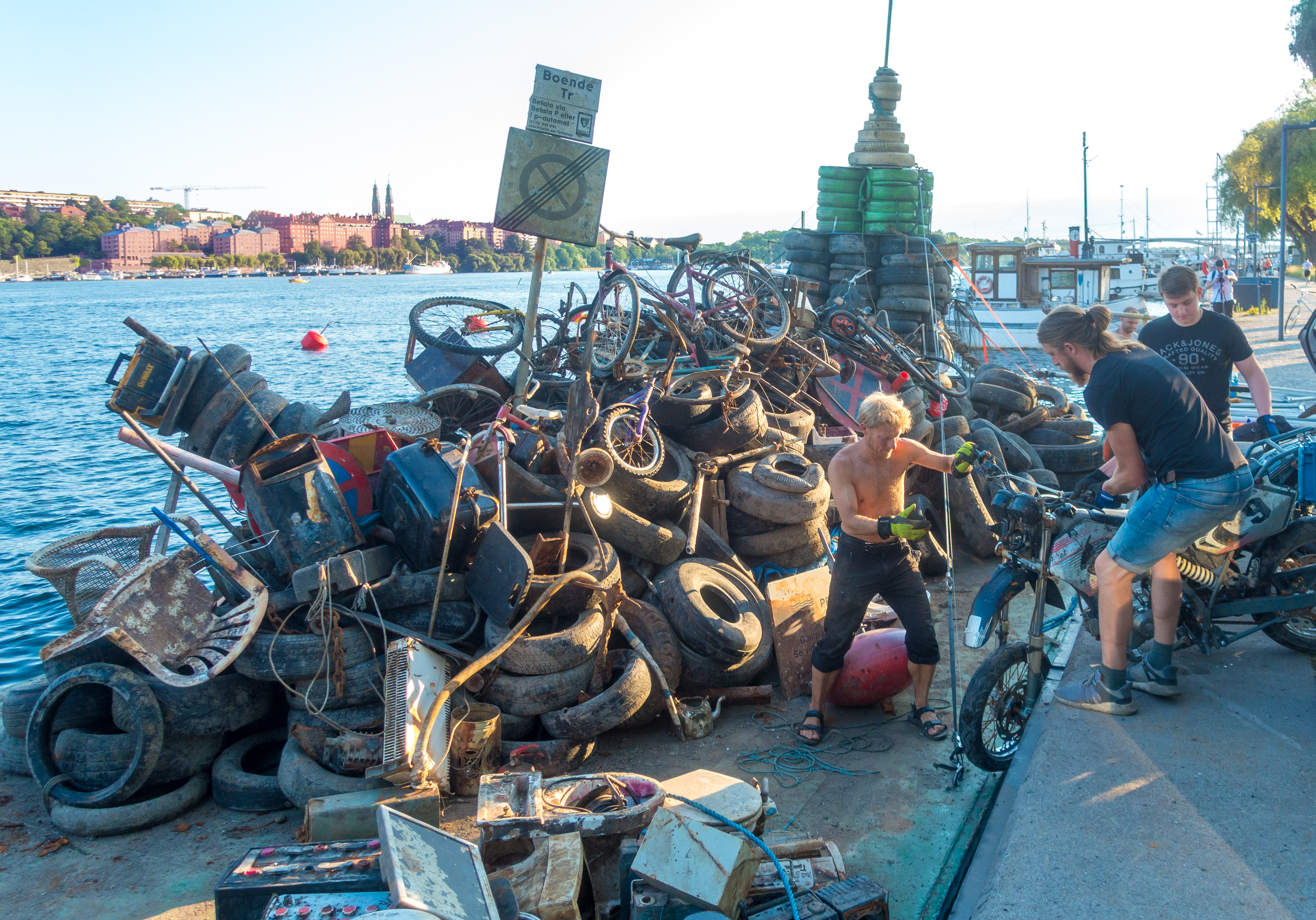 Tons of car tires, bicycles and car batteries dumped along Söder Mälarstrand and Norr Mälarstrand in Stockholm.